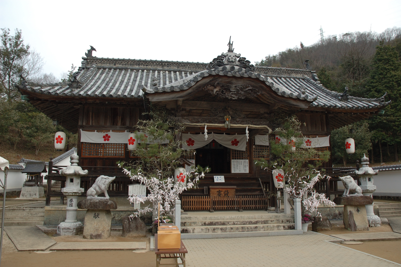 the front shrine